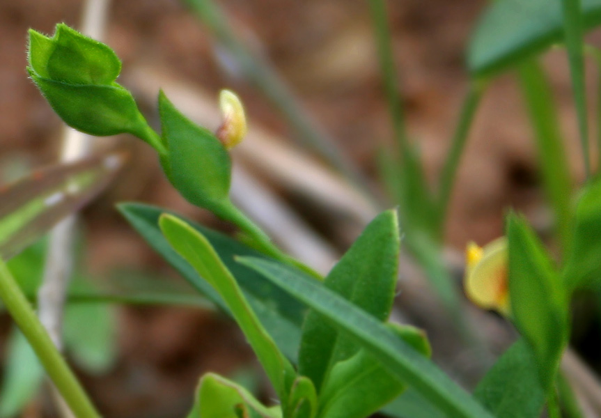 Zornia gibbosa (Syn. Zornia angustifolia, Zornia graminea)- Grasslike Zornia • Kannada: Nellu chollu soppu • Manipuri: Nelam-mari • Marathi: Naala barki- in Keesara, Rangareddy district, Andhra Pradesh, India.